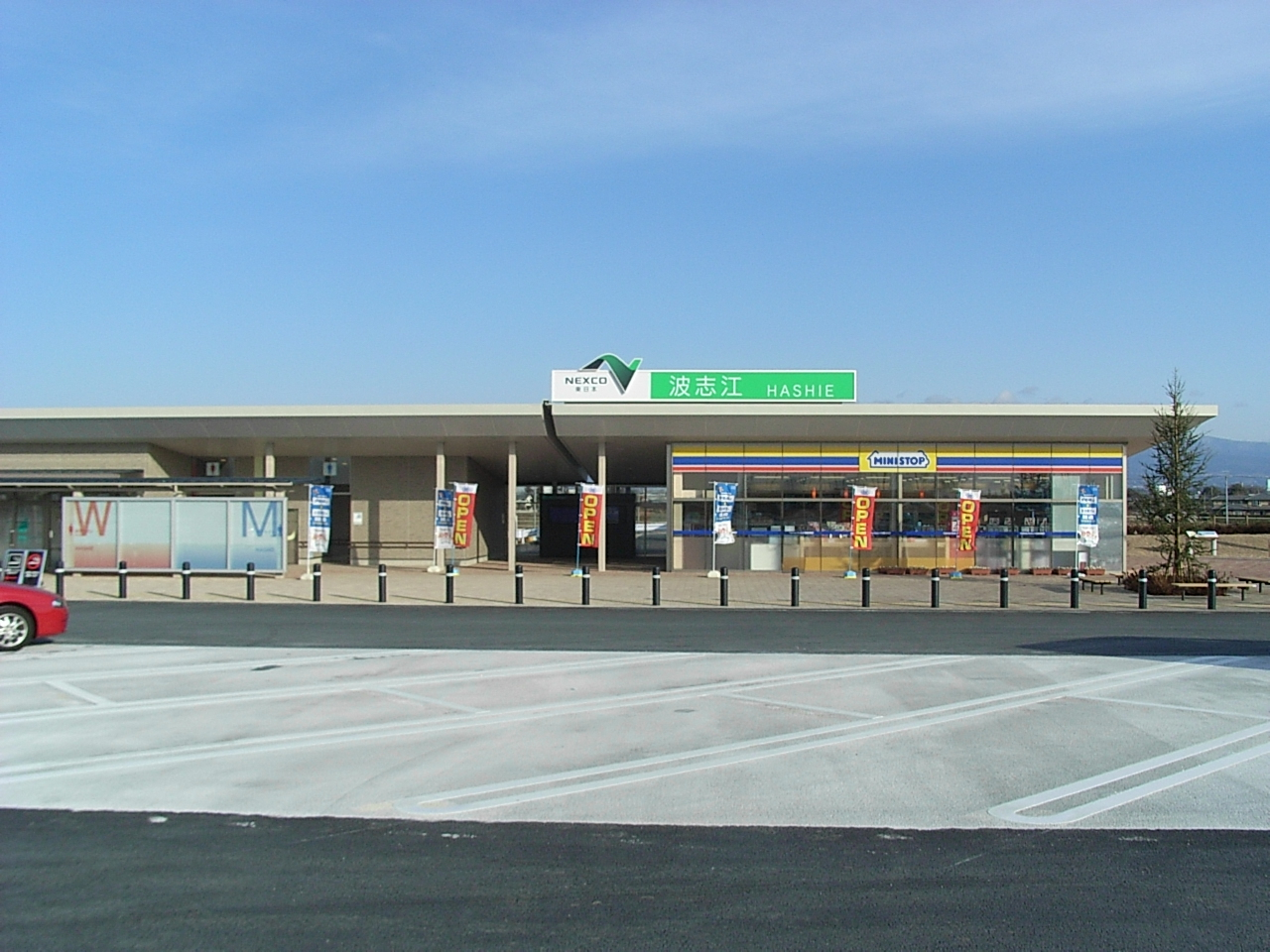 Hashie Parking Area (Down)